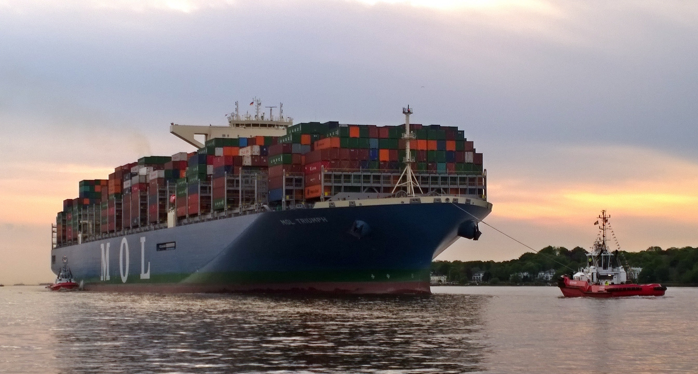 The MOL Triumph bound for Hamburg on the river Elbe